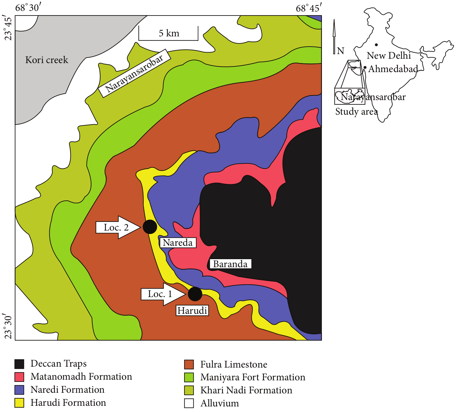 Geological map of a part of the Cenozoic exposures of Kutch with fossil localities (modified after Biswas, 1992).[1] ↑ Biswas S. K. (1992). “Tertiary stratigraphy of Kutch,” Journal of the Palaeontological Society of India 37: 1–29.